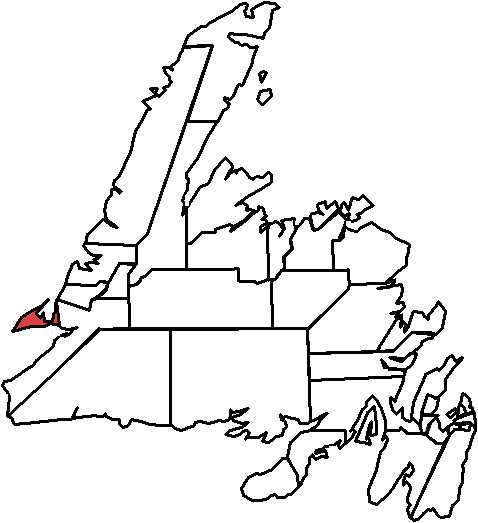 Maps based on images by Earl Warren, from the 2007 elections